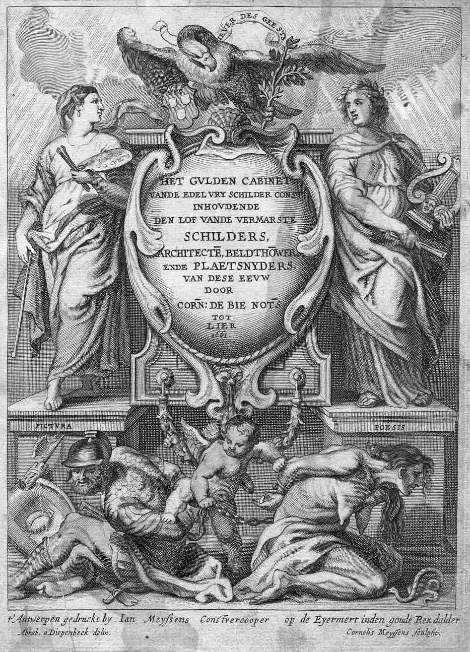 frontispiece of Cornelis de Bie's Het Gulden Cabinet (1662)